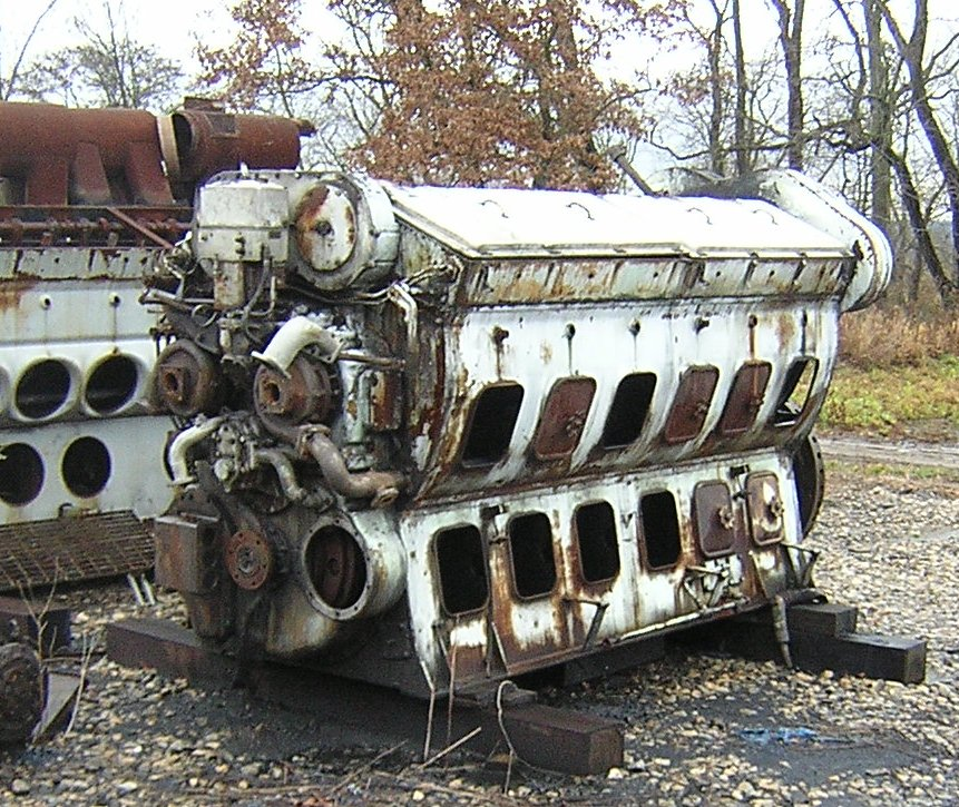 EMD 12-567B missing many parts. In storage, pending rebuild or striping.